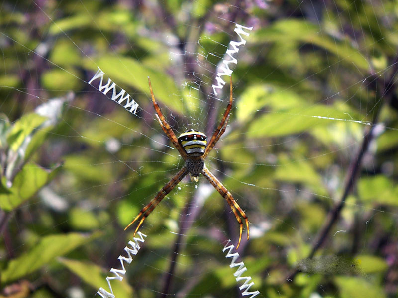 Argiope anasuja